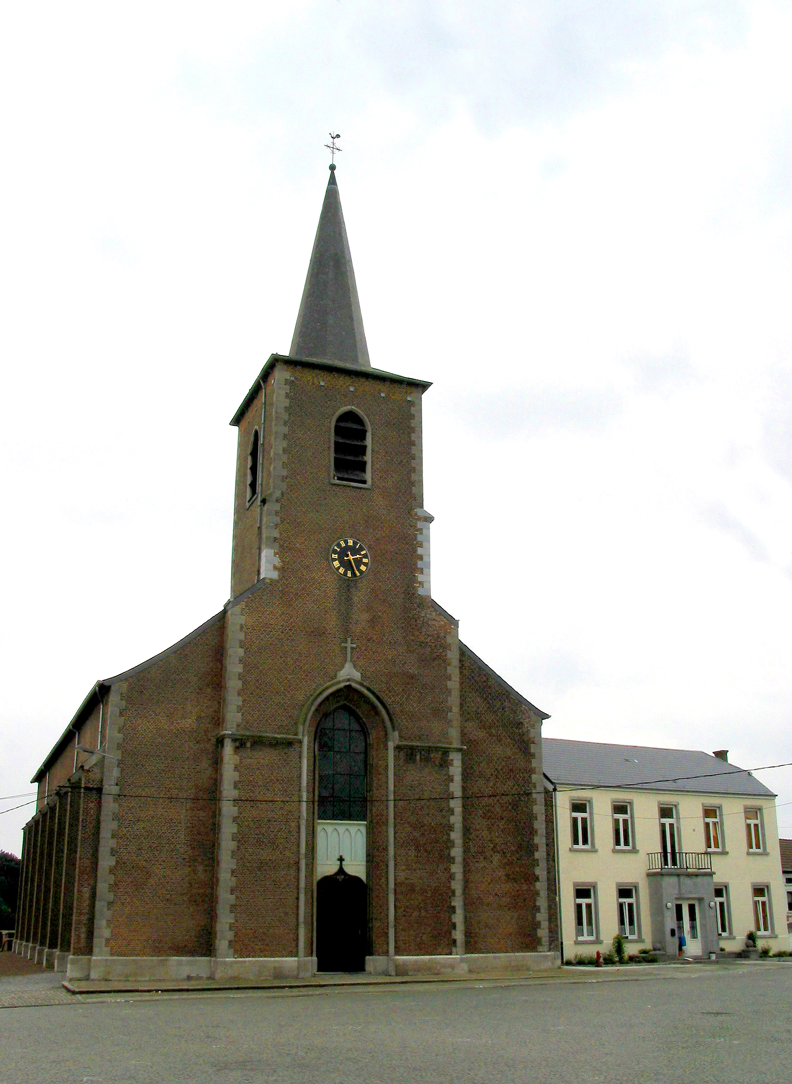 Sombreffe (Belgium), the church of the Assumption of Our Lady (1858).